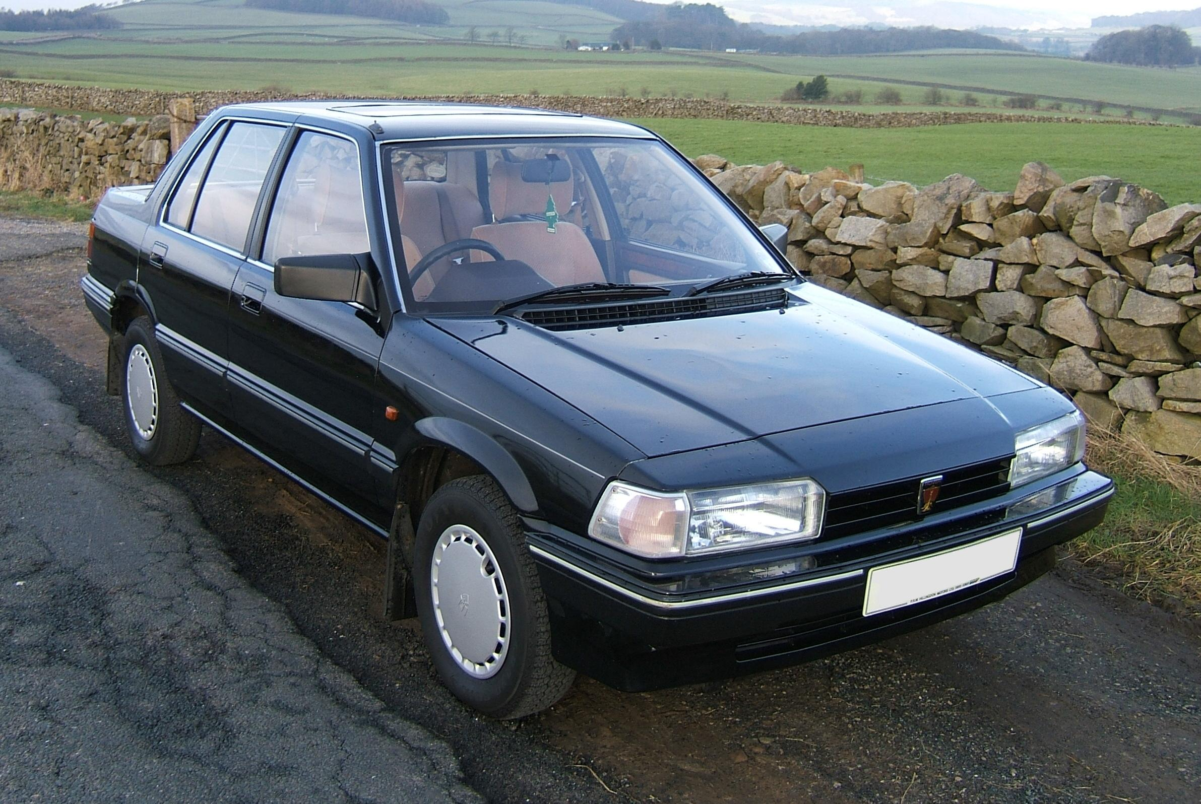 1988 Rover 213SE Automatic.